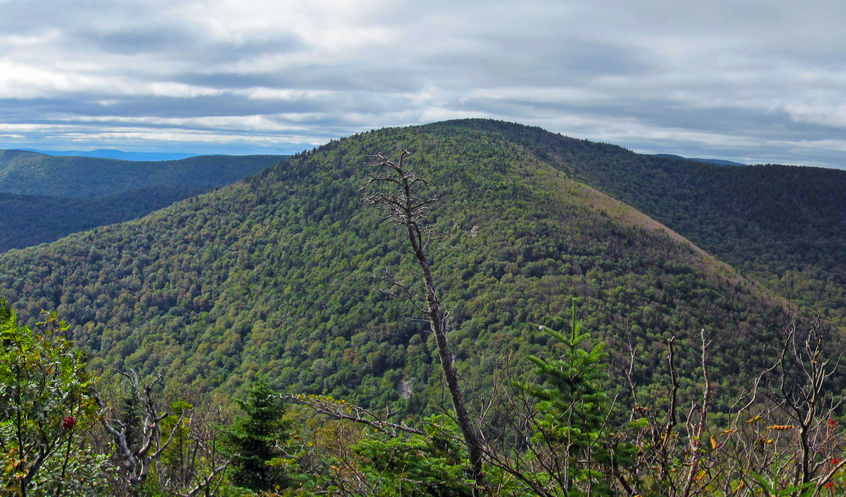 As seen from the north peak of Twin Mountain, Catskills